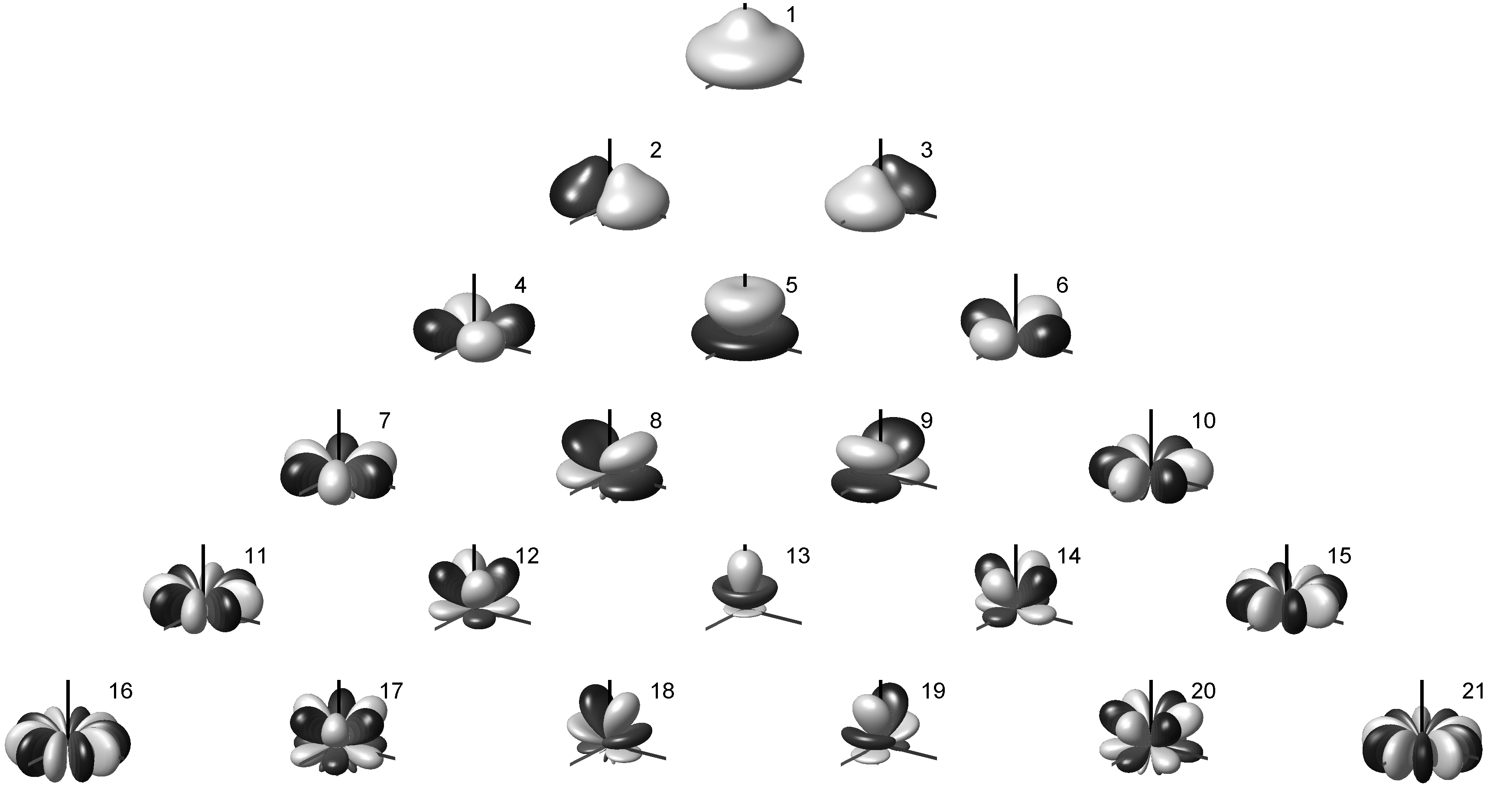 The basis functions for a multipole expansion of a function on a hemisphere.